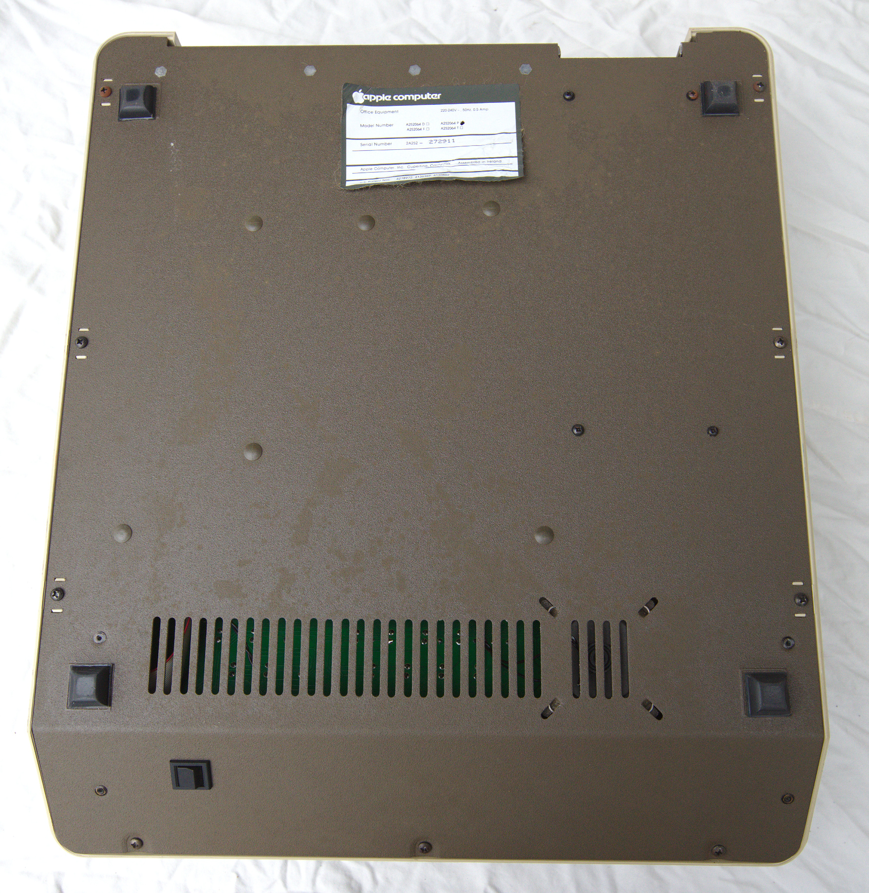 Bottom view of an Apple IIe computer chassis, showing original manufacturing sticker.